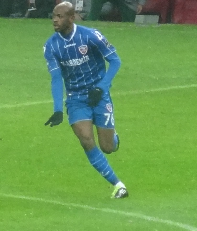 Luton Shelton GS Karşısında